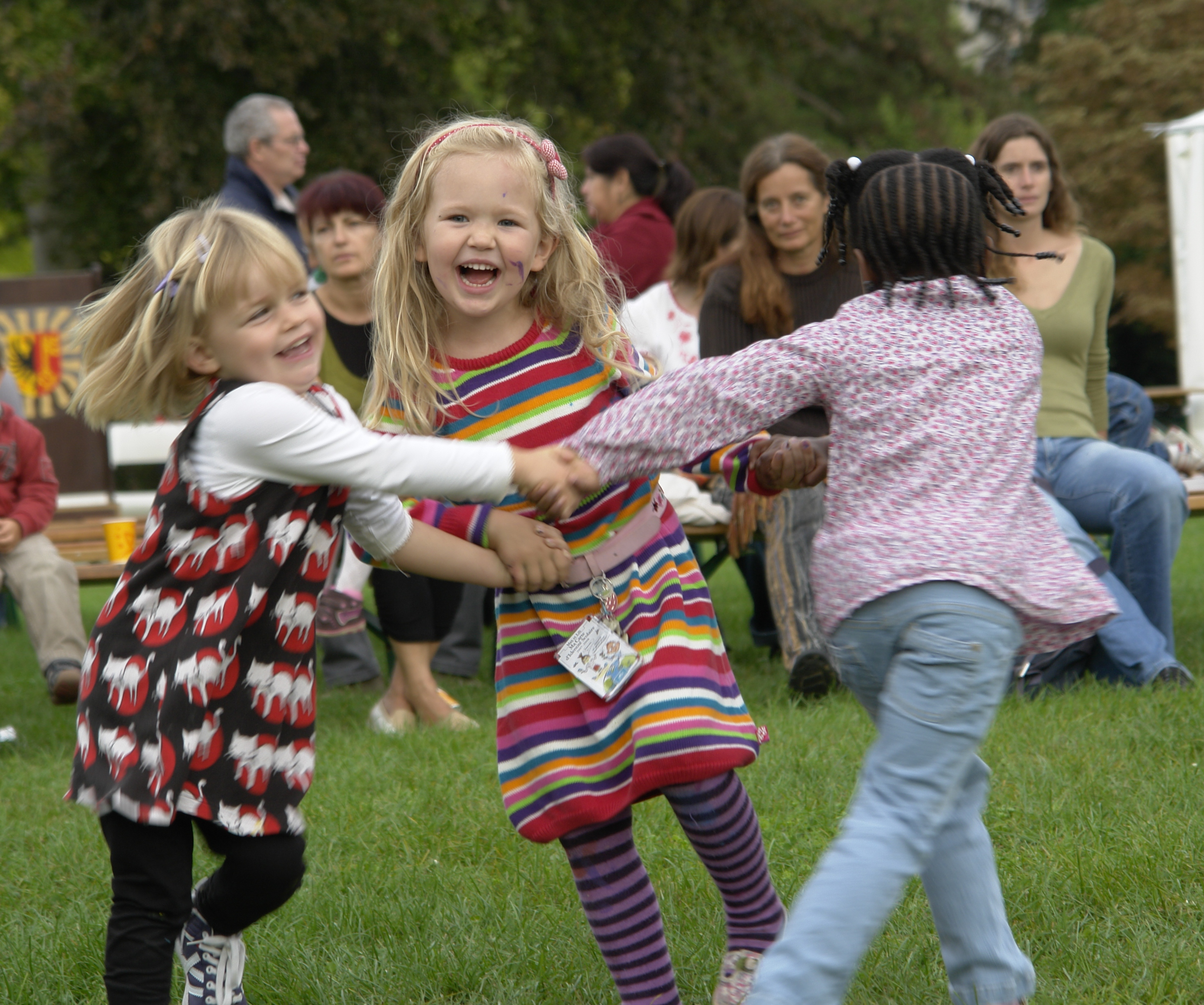 Children dancing, International Day of Peace 2009, Geneva.